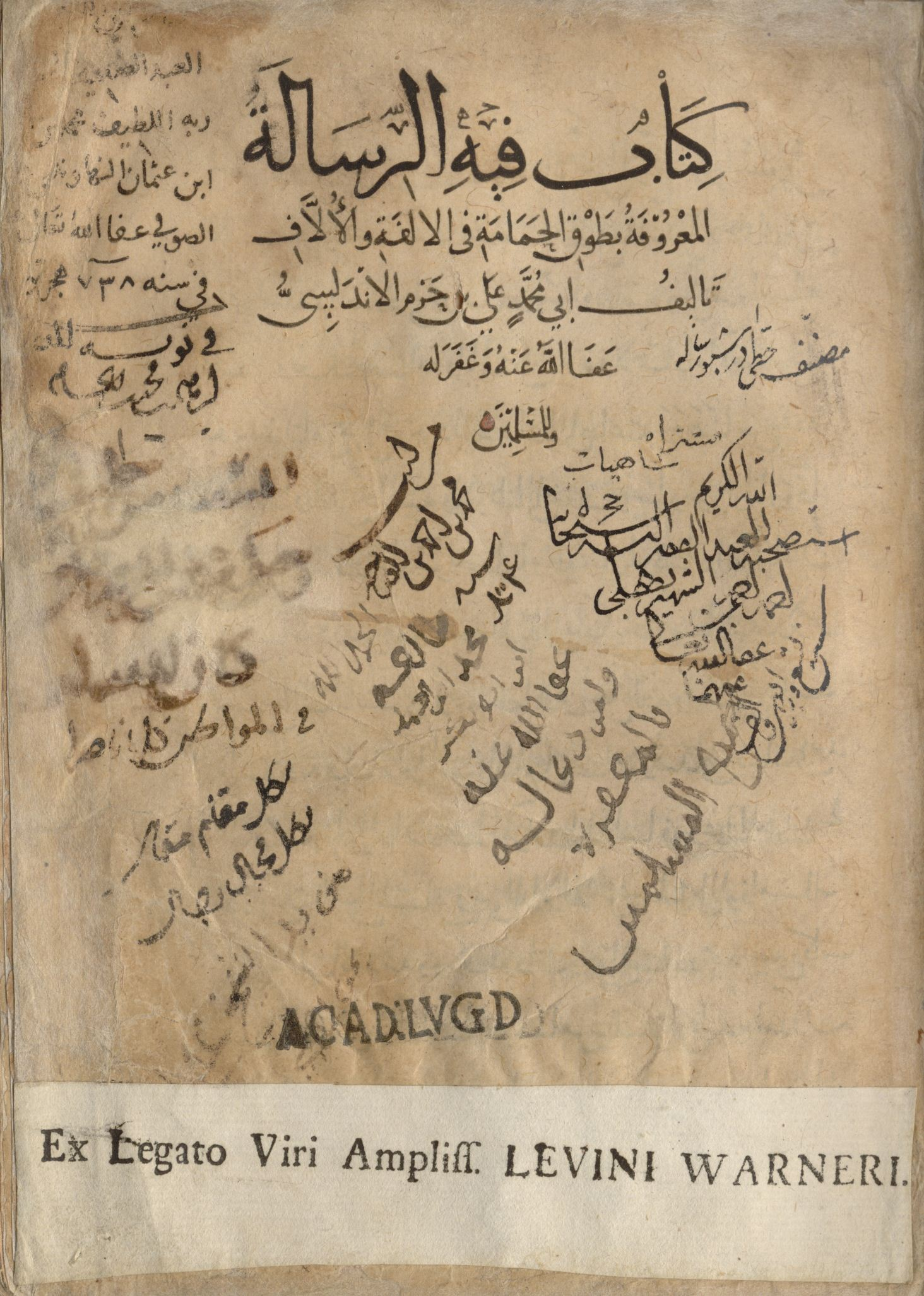 Ring of the Dove (Ṭawq al-ḥamāma fī 'al-ulfa wa-al-ullīf), written around 1022 CE in Játiva, south of Valencia. Example of Islamic culture in Spain. Manuscript since 17th century in Leiden University Library, The Netherlands. Or.927, fol.1a. Ex libris Levinus Warner ("Ex legato viri ampliss. Levini Warneri")